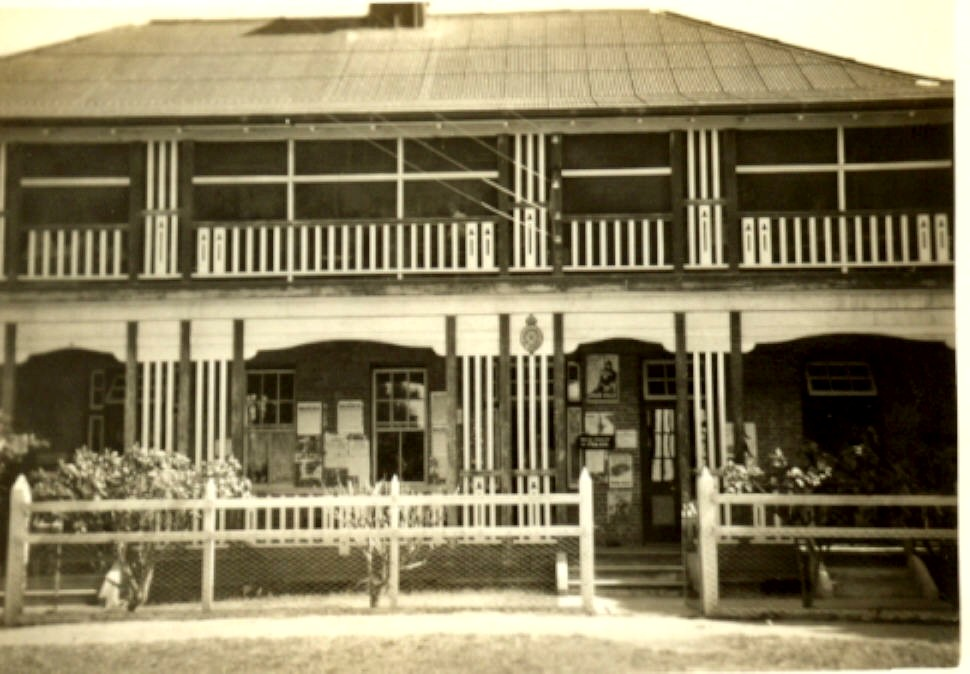 Cairns Police Station, 1948. Note the station badge above and to the left of the entry. Image No. PM0749 Courtesy of the Queensland Police Museum.